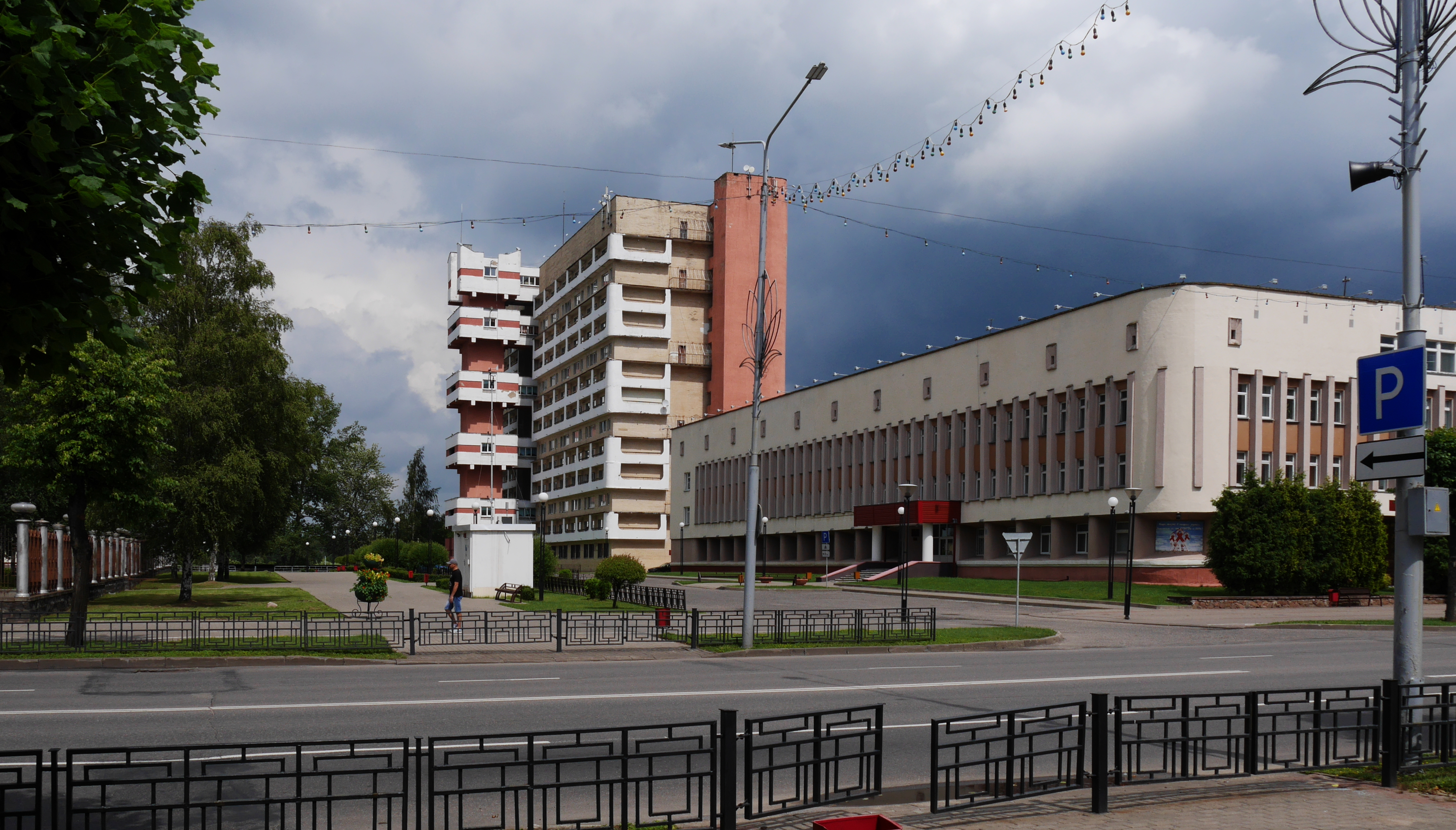 Navapolatsk, 47 Molodezhnaya str.